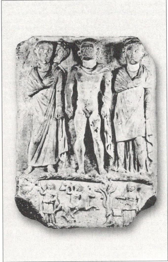 Early christian gravestone found in the village of Dolni Disan, near Negotino, Macedonia